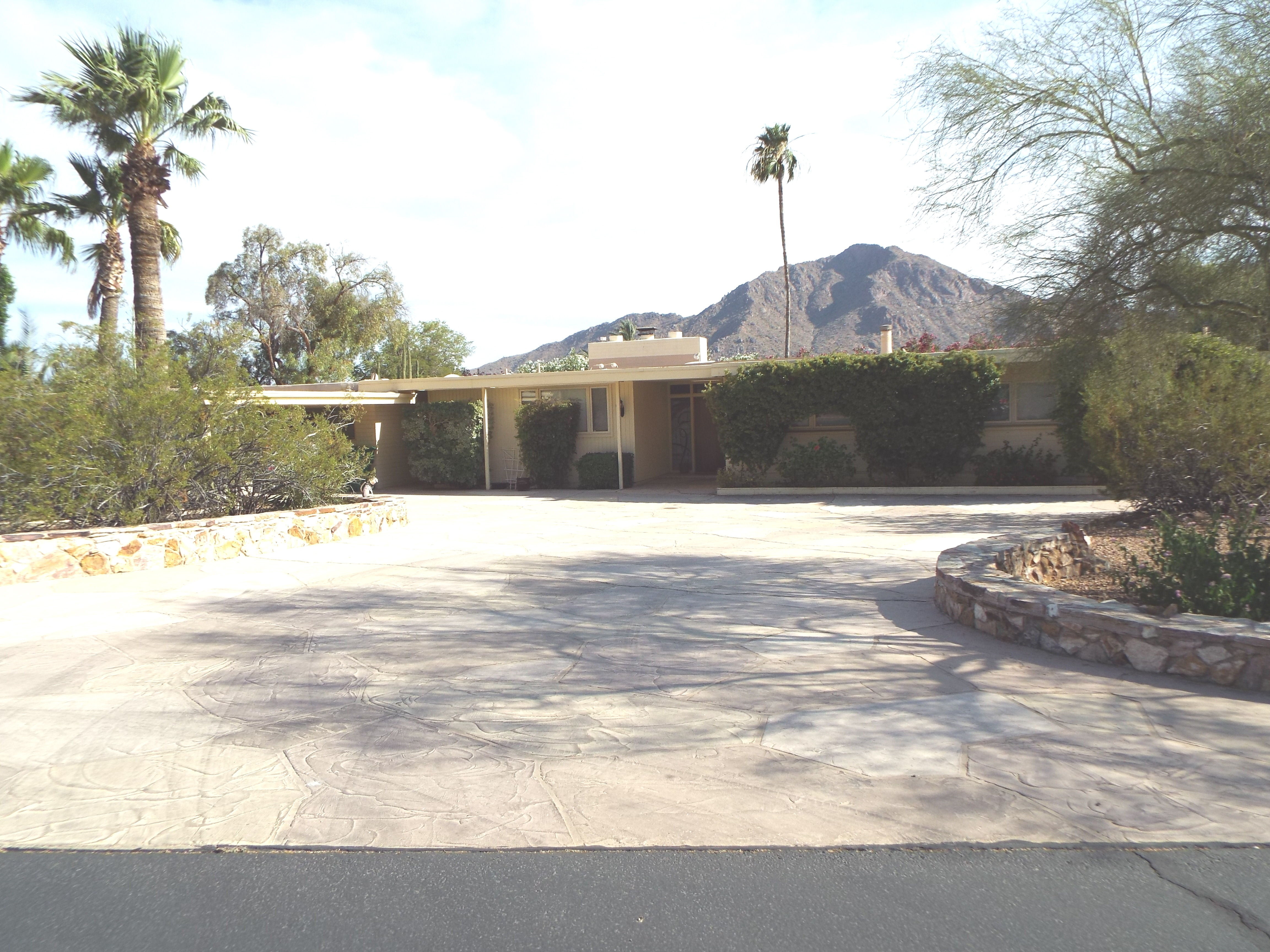 The house of the cartoonist Bil Keane, creator of the cartoon "Family Circus", and Thel Keane, his wife, built in 1957 and located at 5815 E. Joshua Tree Ln. in Paradise Valley, Arizona.